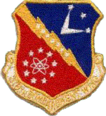 Patch of the 379th Bombardment Wing, Wurthsmuth AFB, Michigan